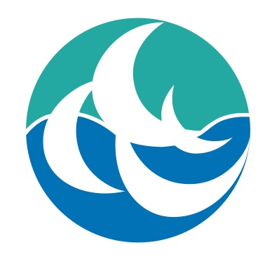 Shunan Yamaguchi chapter